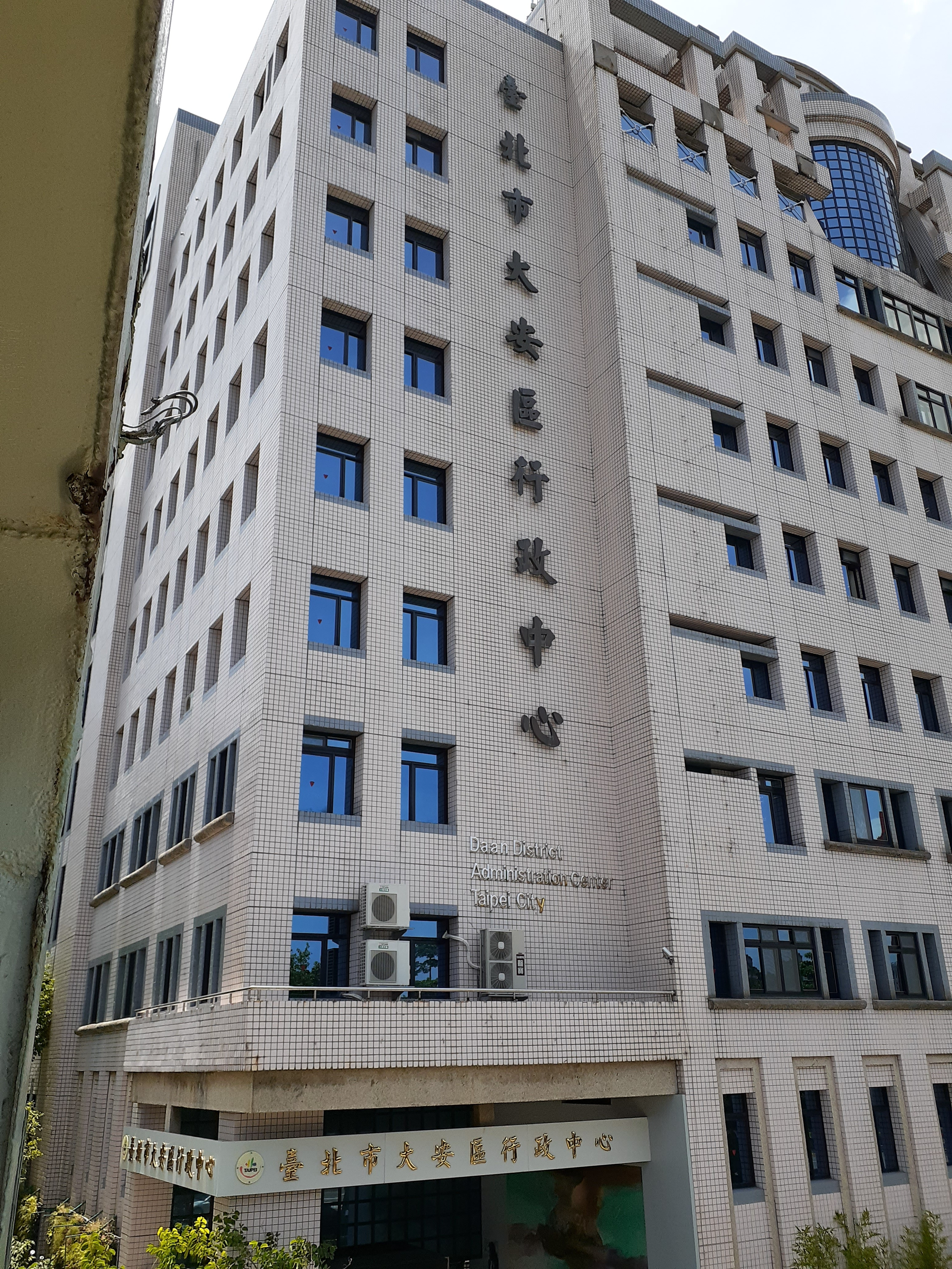 Daan DistrictAdministration CenterTaipei City